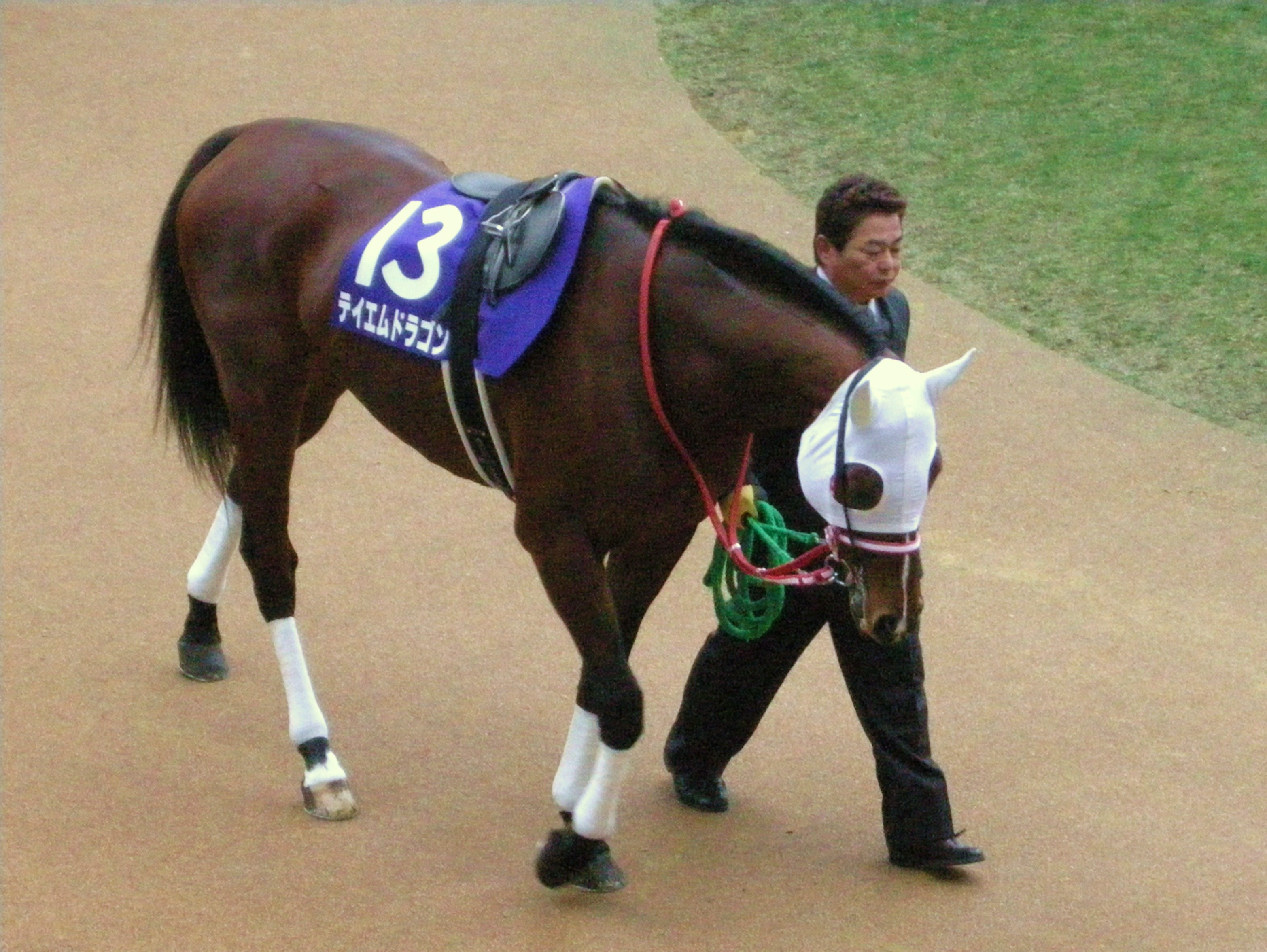 T M Dragon(horse)